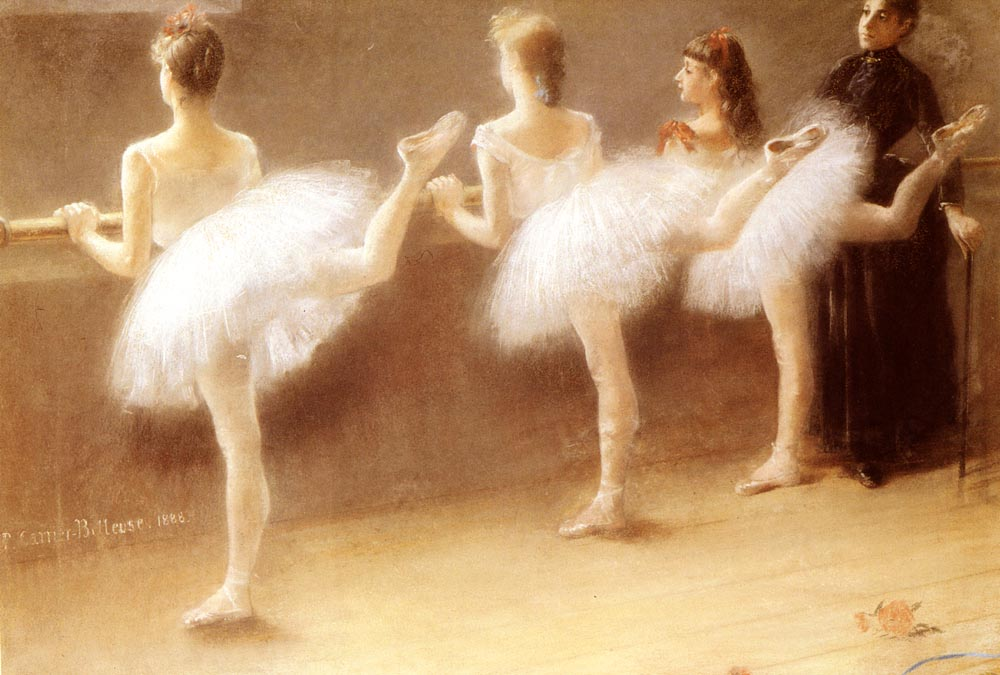 At The Barre